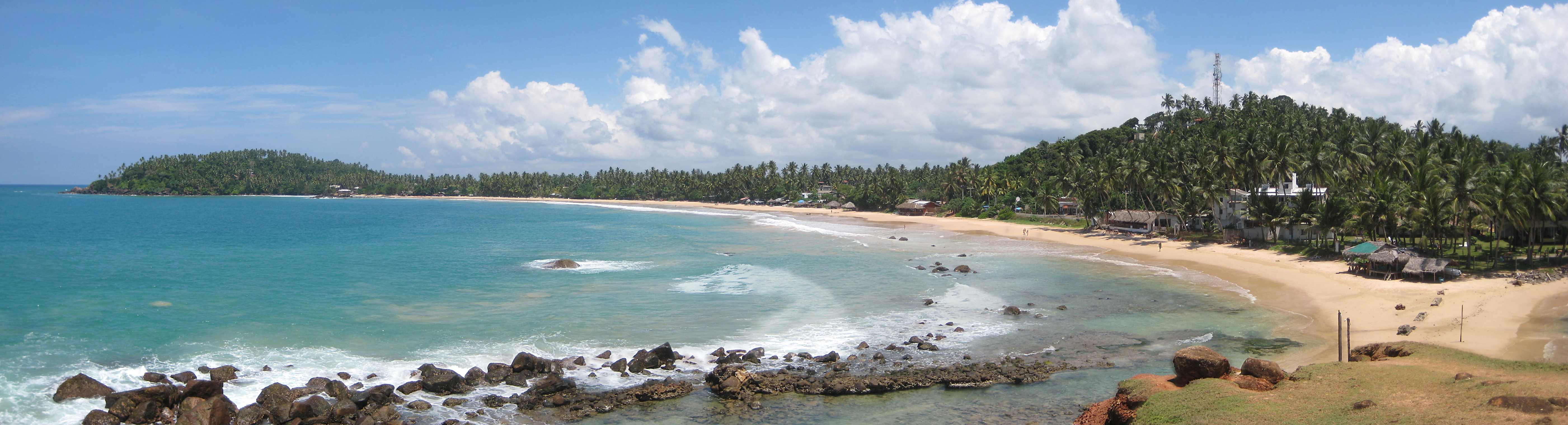 Panorama of Mirissa Beach